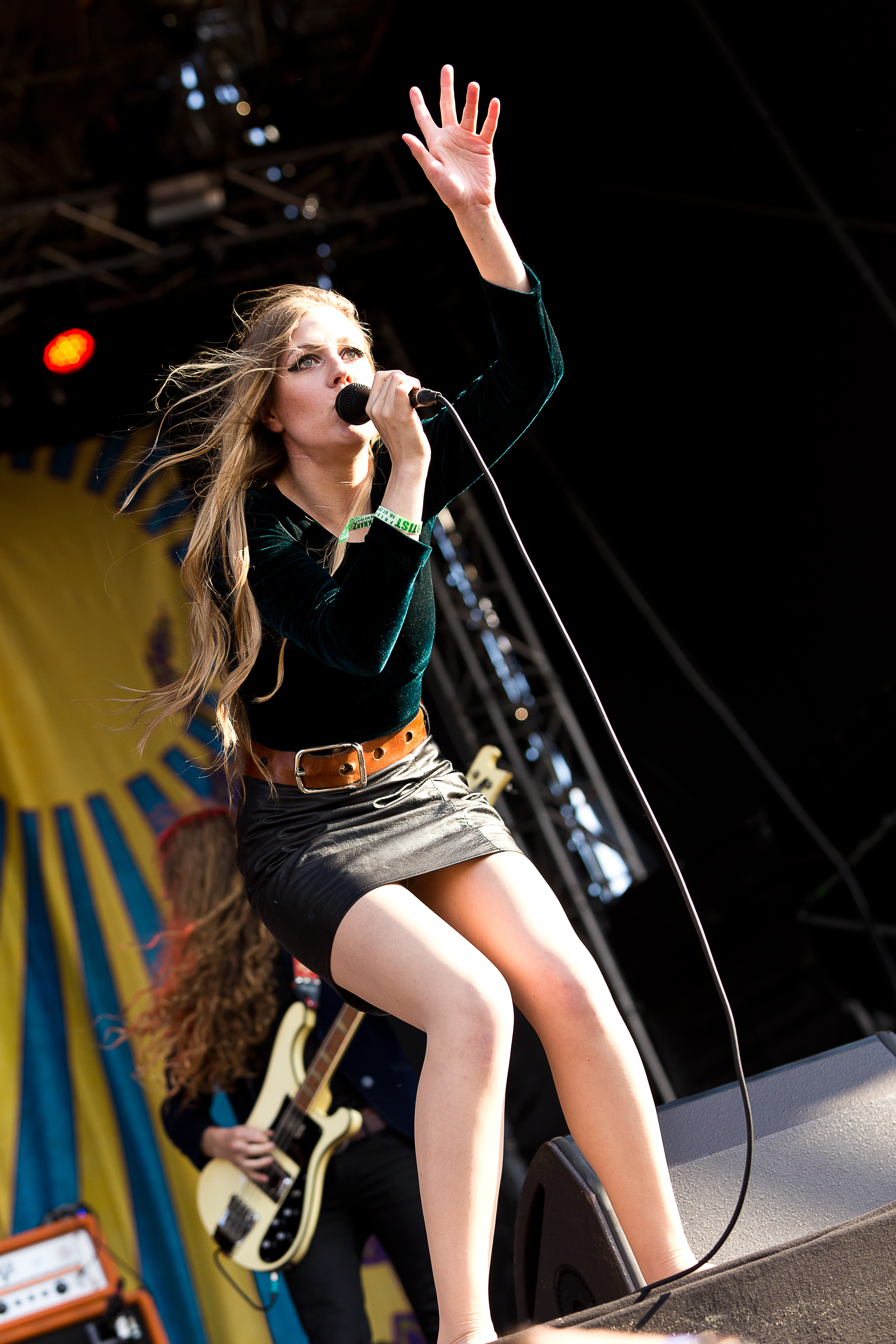 The Swedish blues rock band Blues Pills at the Rockharz Open Air 2015 in Ballenstedt/Germany.